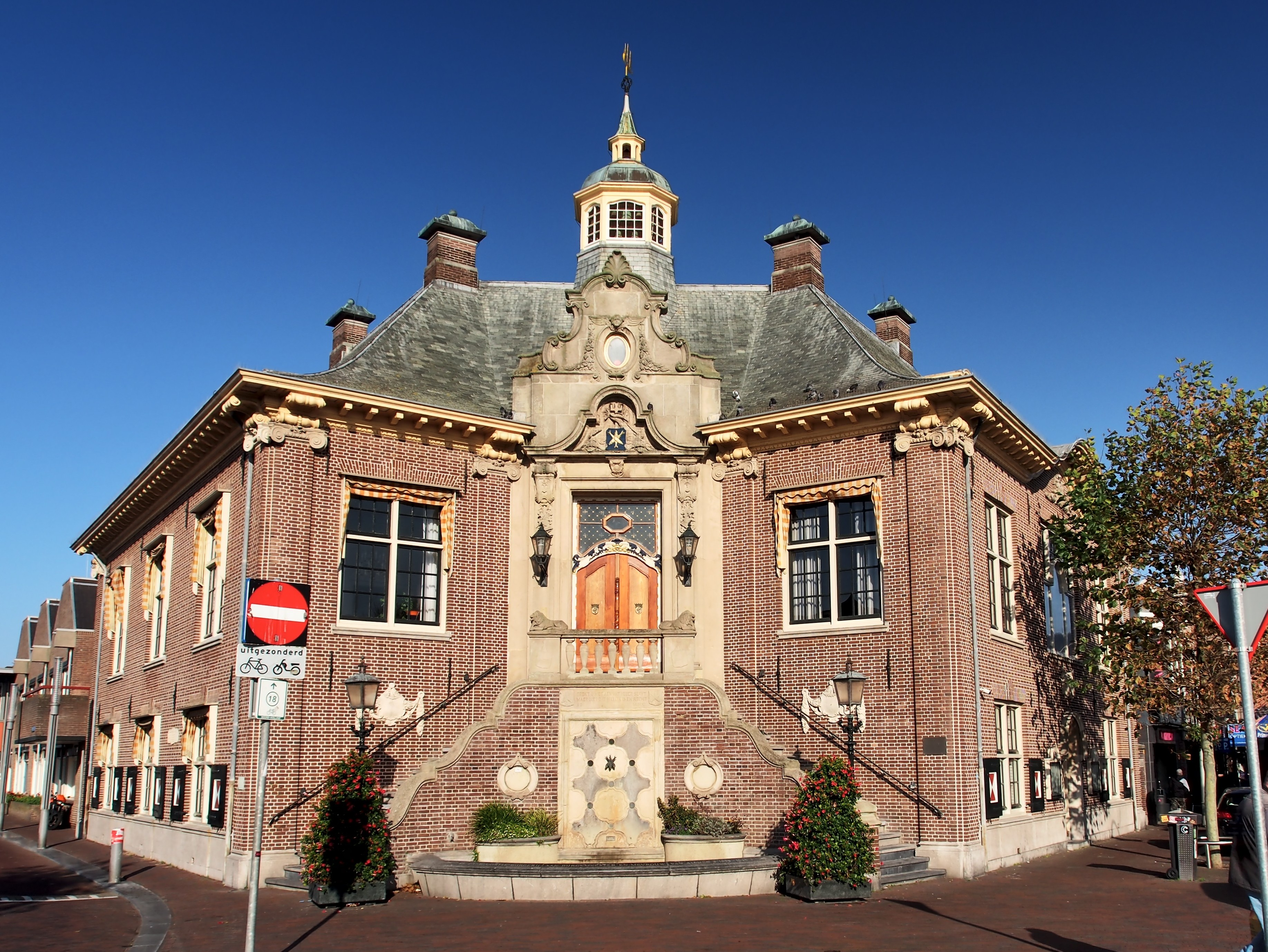 Photographed at Zandvoort.